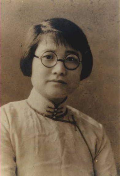 Su Xuelin at the National Wuhan University